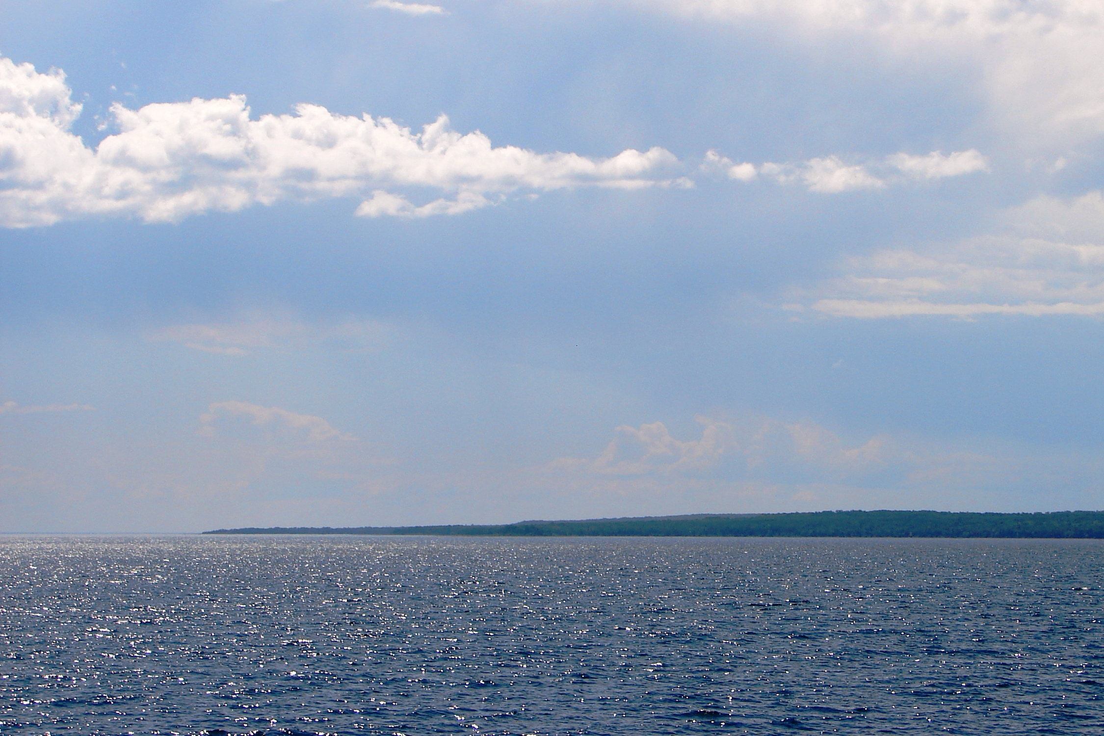 Cockburn Island as seen across the Mississagi Strait, Ontario, Canada